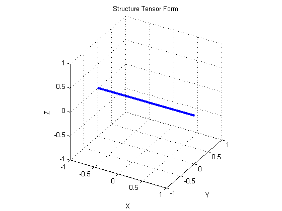 Structure tensor ellipsoid